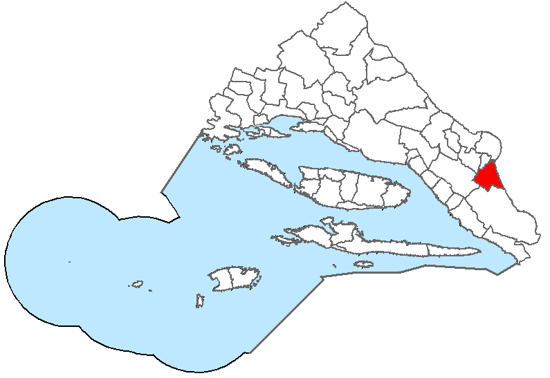 Position of municipality inside Split-Dalmatia County